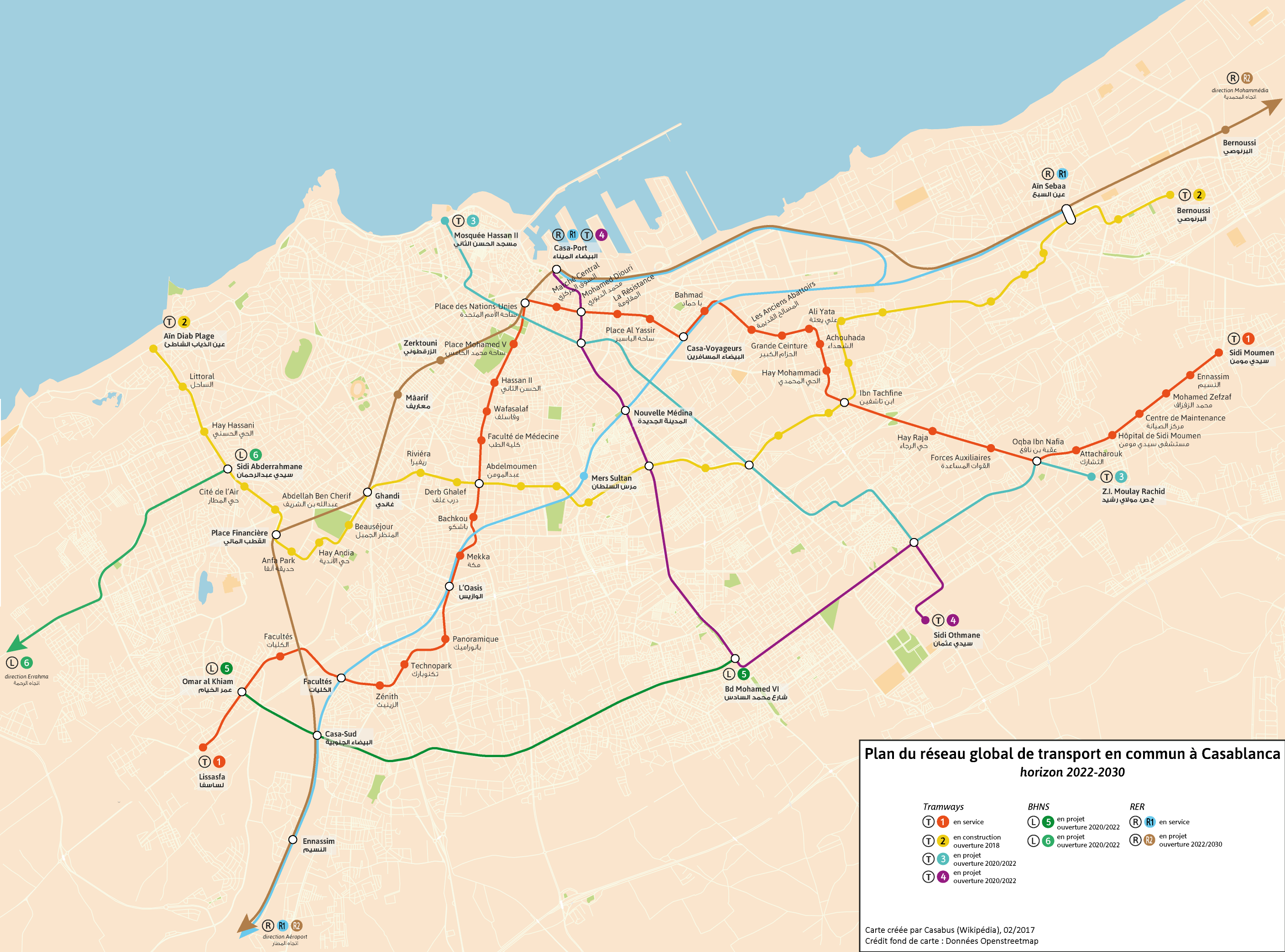 Comprehensive plan of the public transportation network in Casablanca, Morocco as foreseen by SDAU, PDU and Casa Transports for 2022-2030.